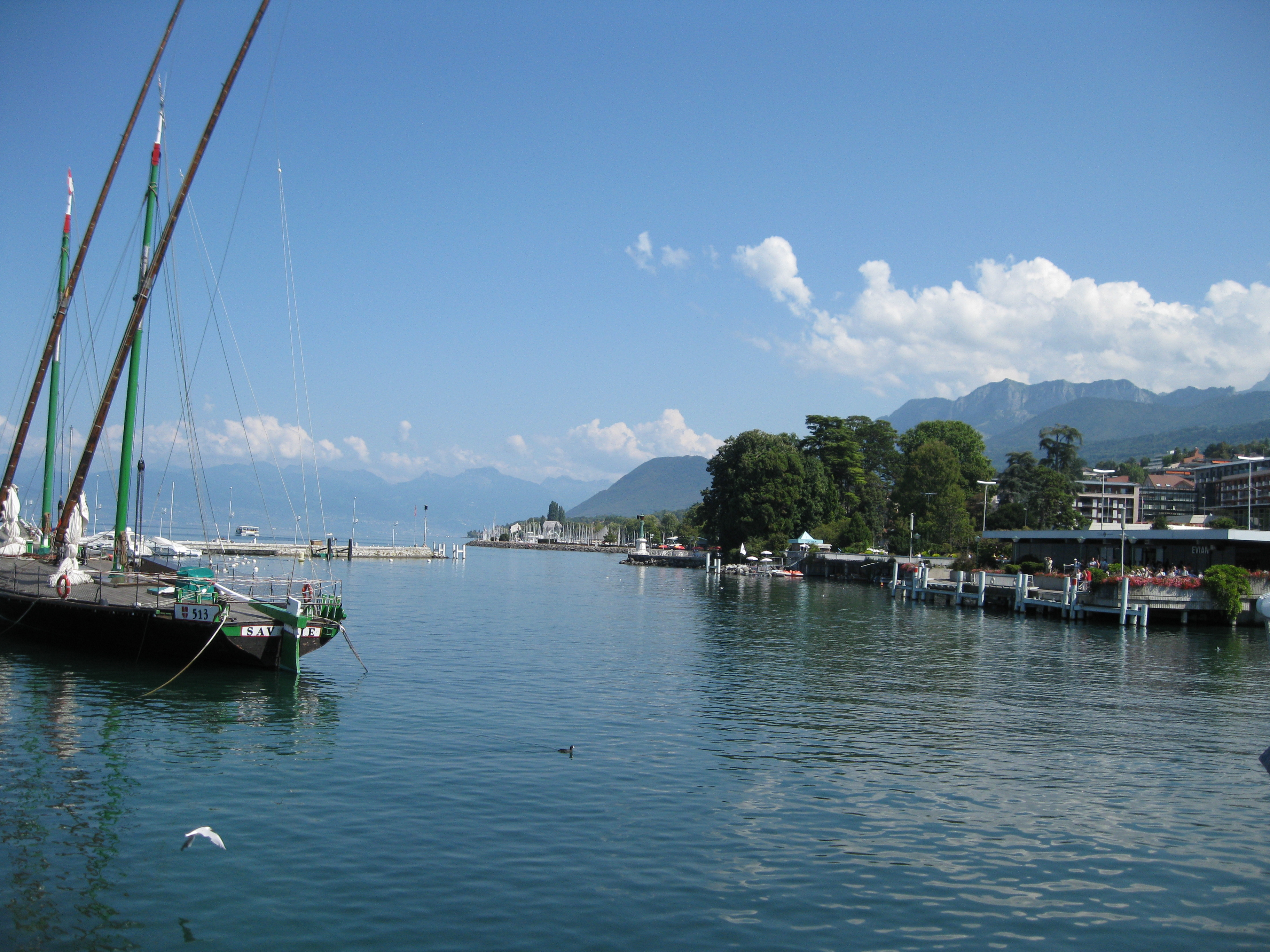 Around the lake of Geneva, Switzerland / France. Location see geotag.